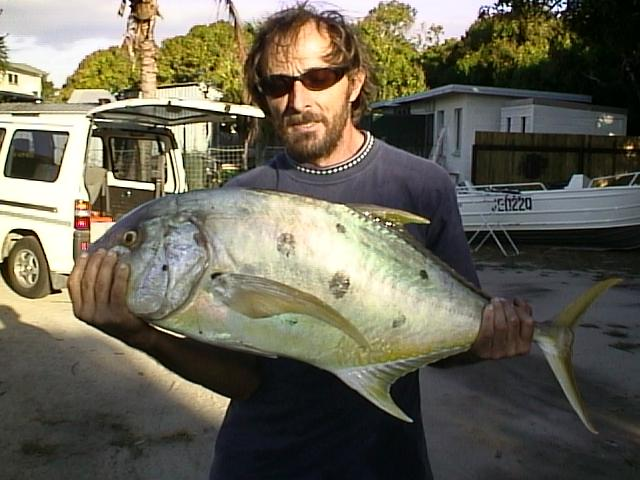 Fisherman with large golden trevally, Gnathanodon speciosus